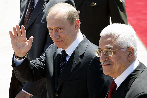 RAMALLAH. Meeting with the head of the Palestinian National Authority, Mahmoud Abbas.